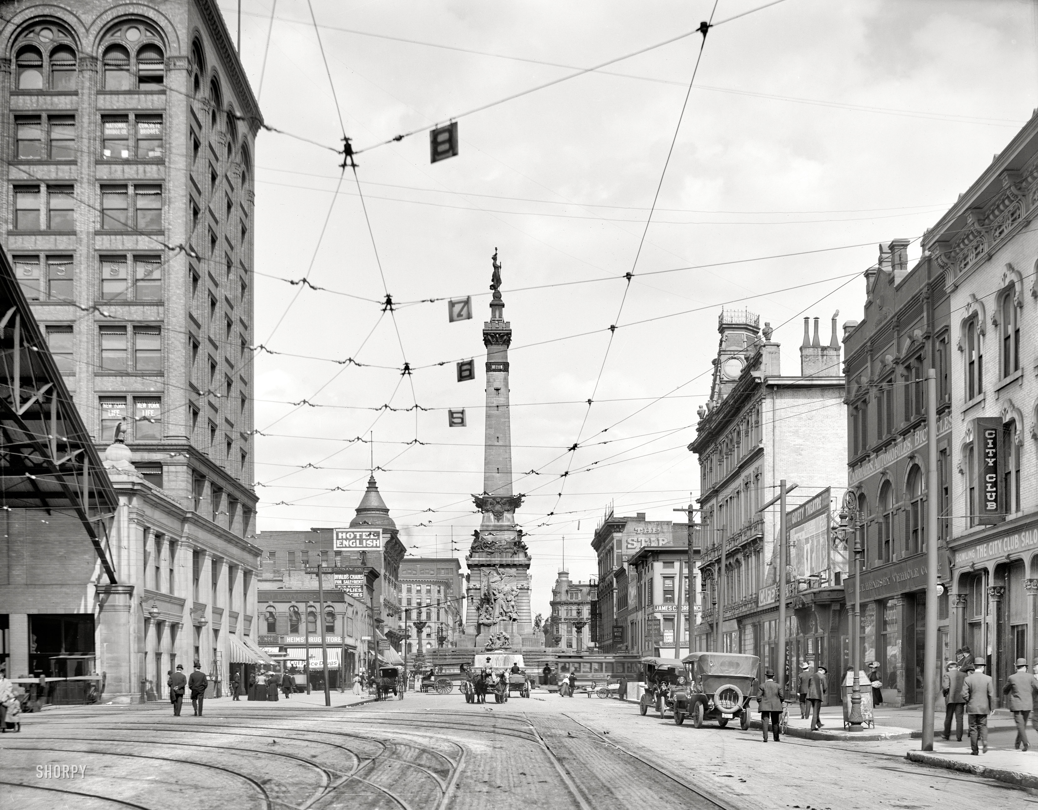 Interurban tracks visible from West Market Street, facing the Soldiers' and Sailors' Monument in Indianapolis, 1907